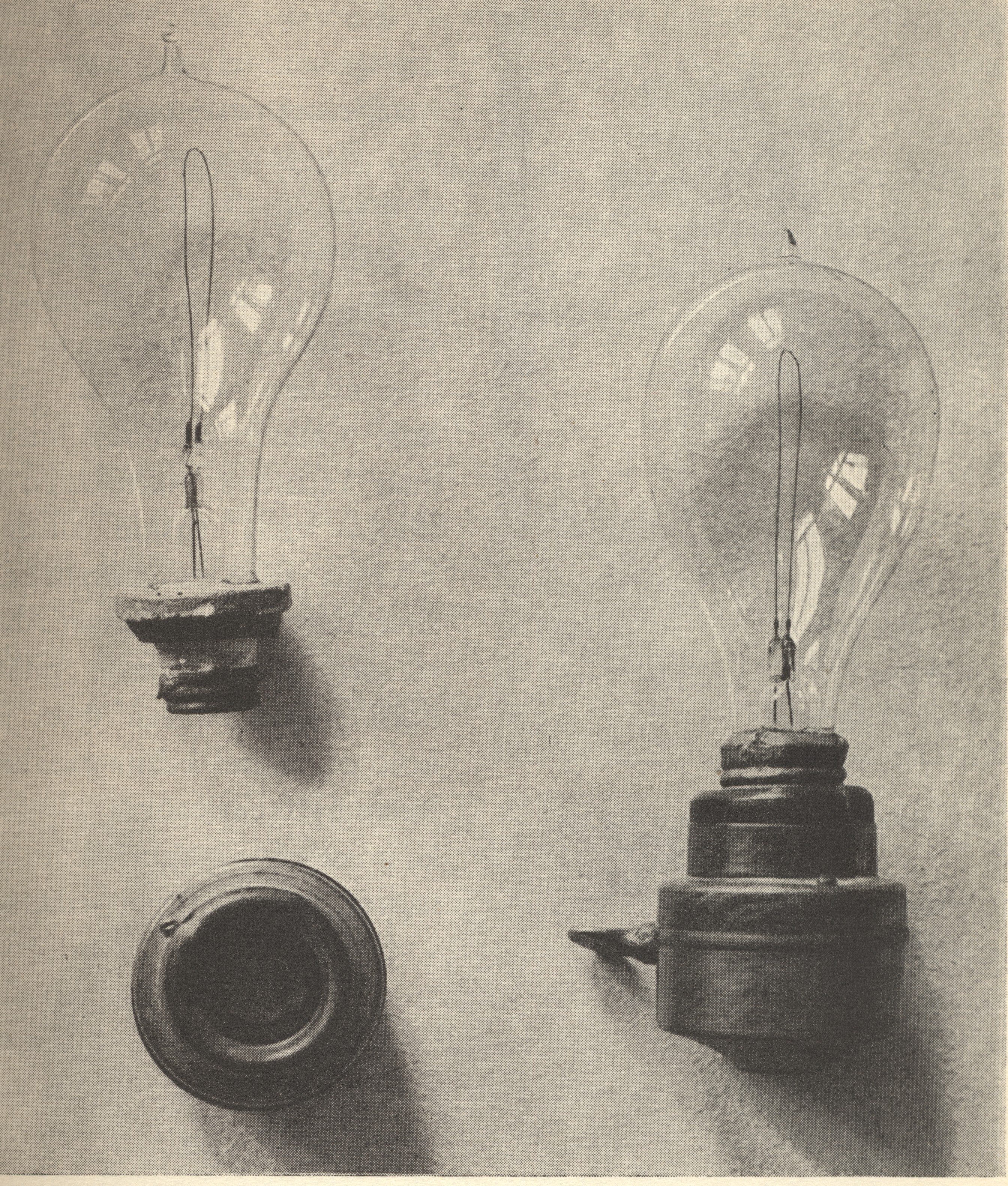 First electric lamps at Finlayson